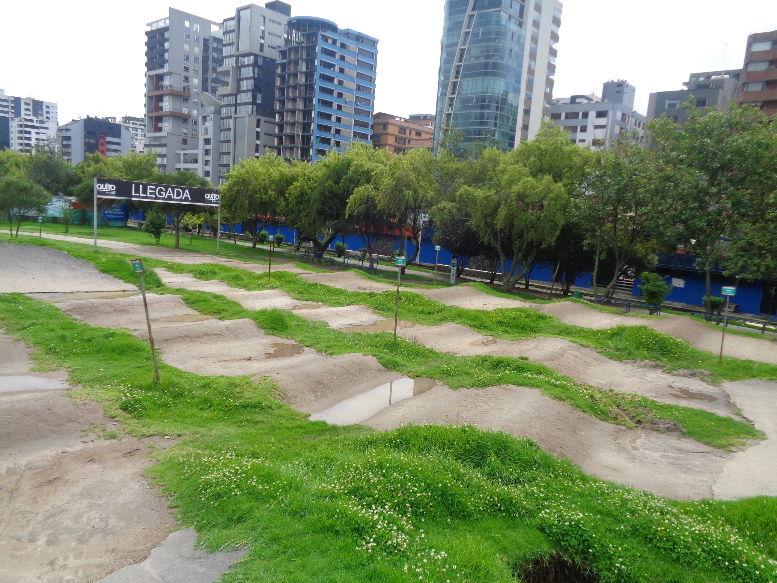 BMX tracks (Parque La Carolina in Quito. Ecuador)